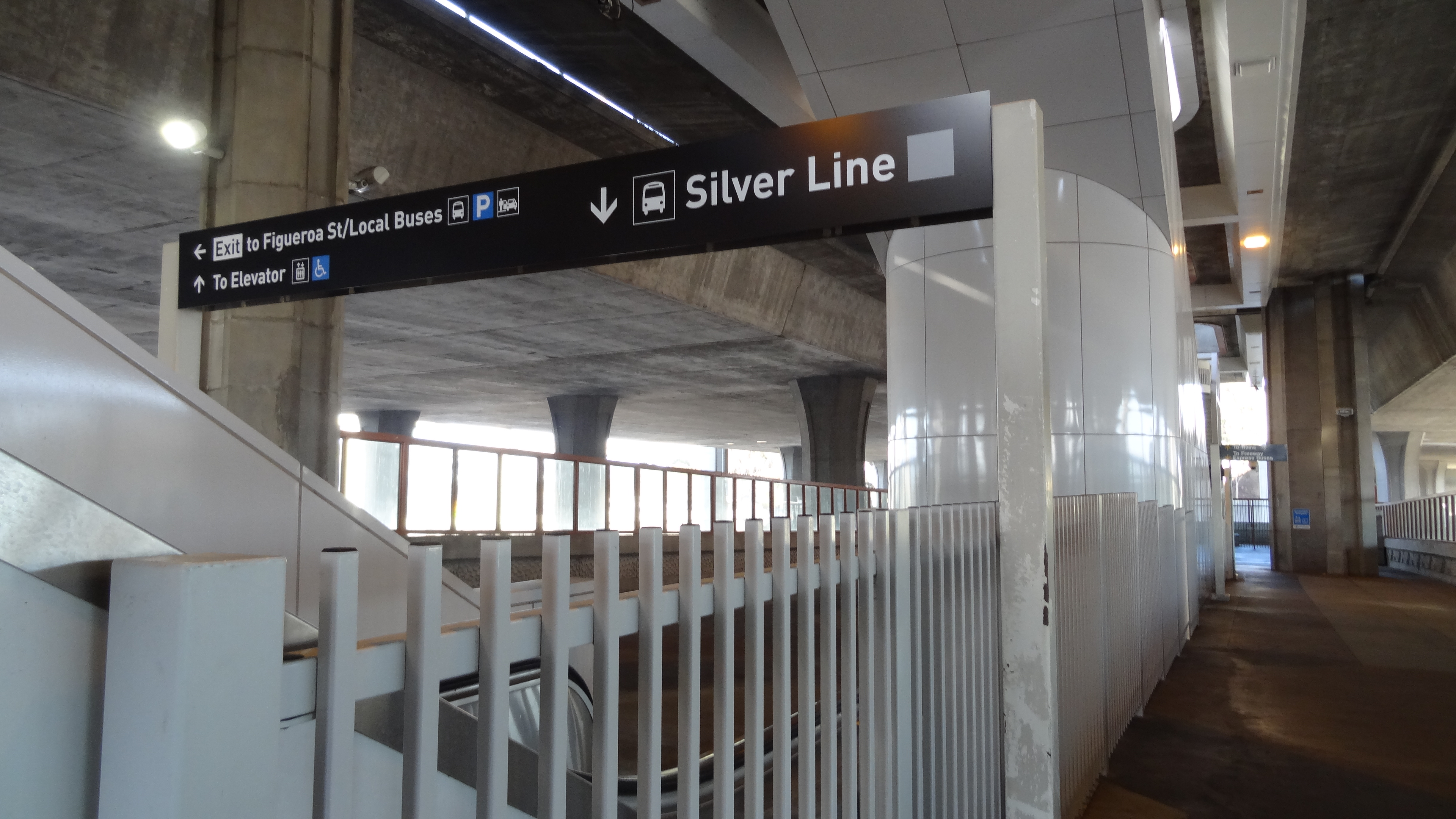 Stairs to street level.